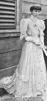 picture of HRH Antonia, The Duchess of Parma, Infanta of Portugal